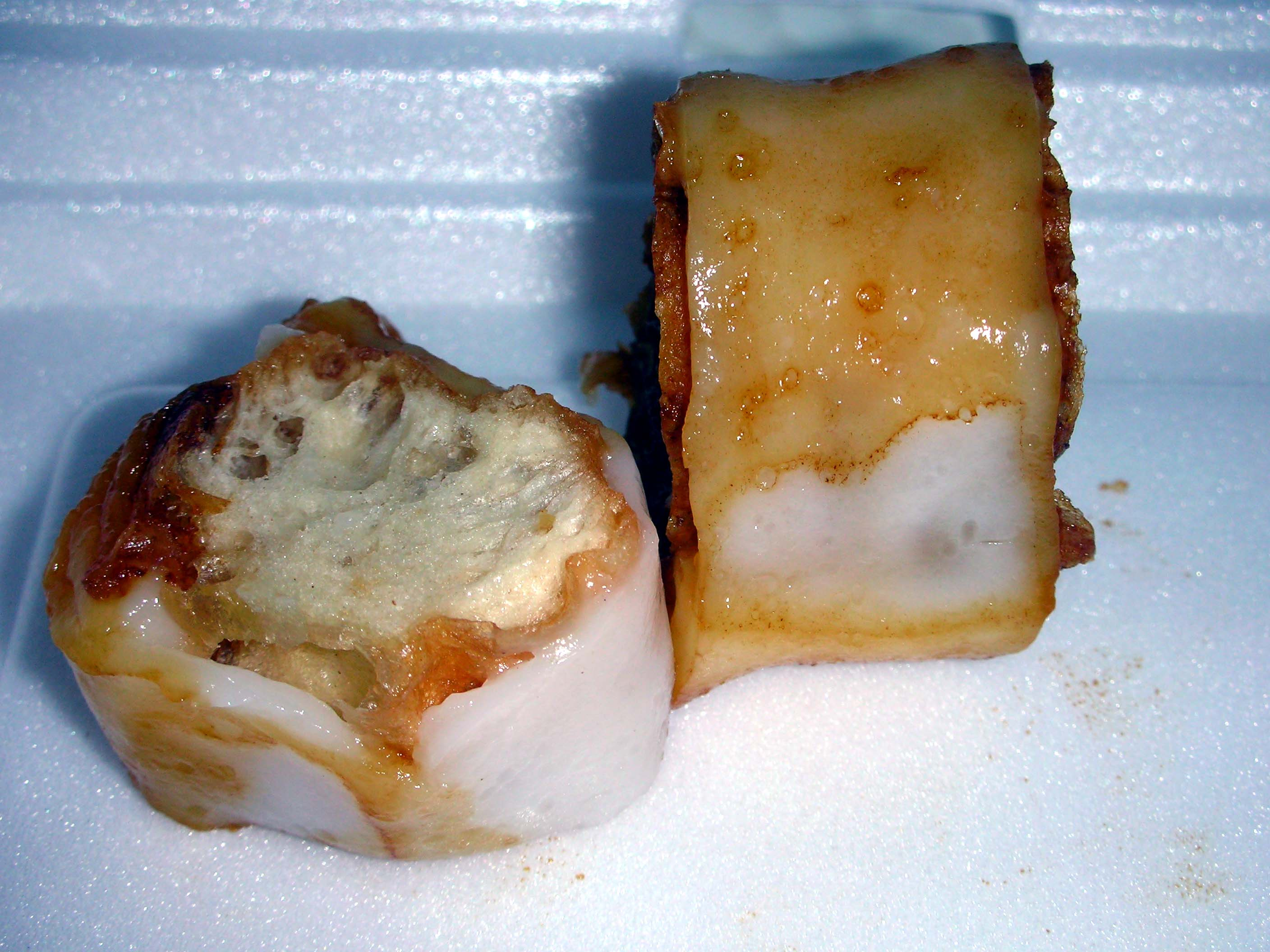 "Ja leung", Youtiao wrapped in a rice noodle roll.